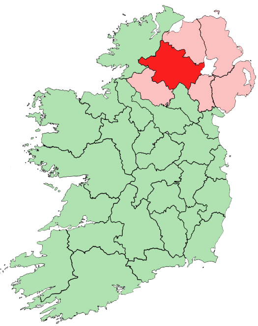 Location of County Tyrone on island of Ireland